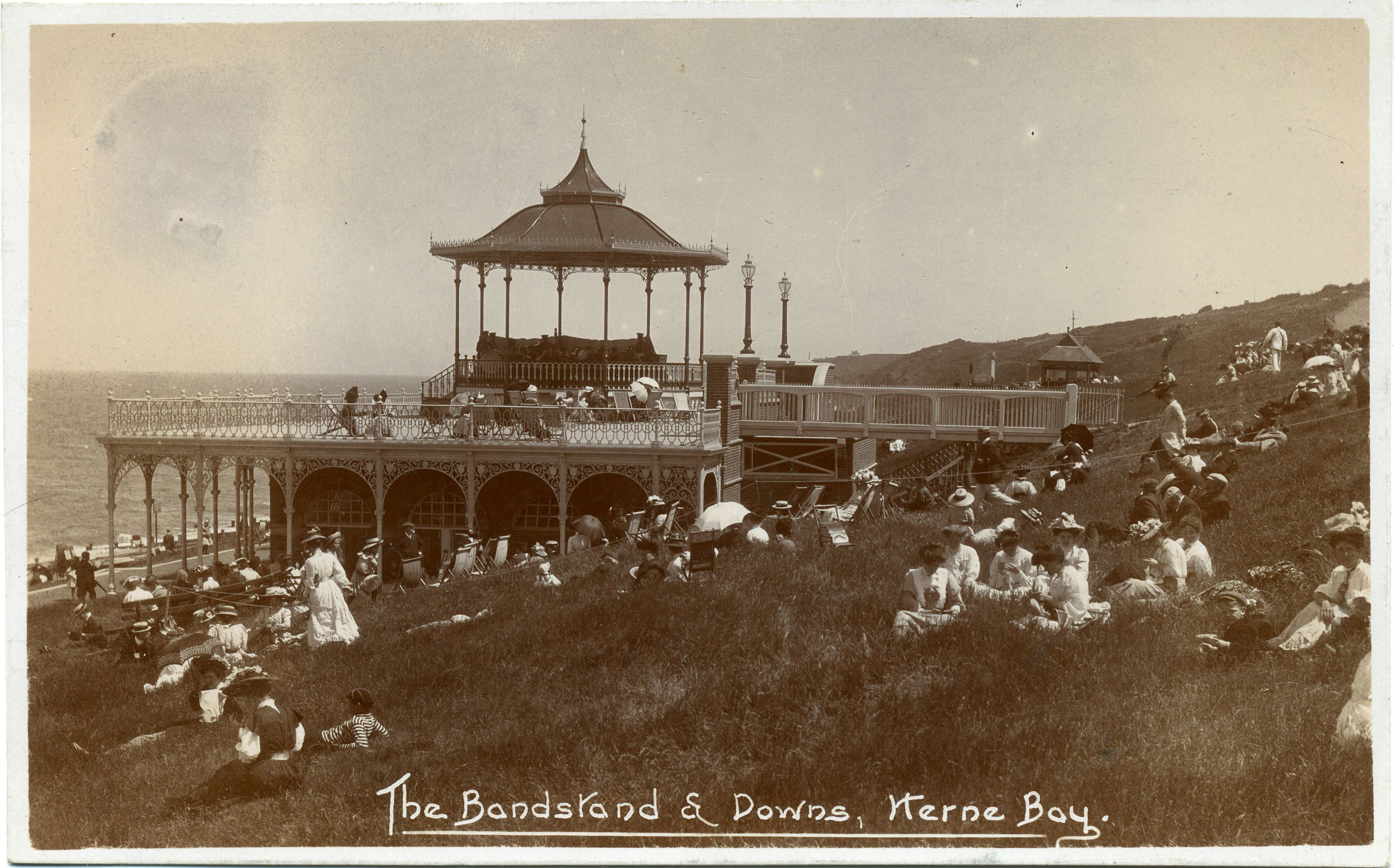 Postcard photograph of the King's Hall, Herne Bay, Kent, England. Postmarked 1908. It was called the Pavilion or Bandstand before it was extended underground and re-named in 1913. Points of interest There is a band playing in the bandstand. The bandstand no longer exists on top of King's Hall. There is a lot of reading, sewing, knitting and wearing of best clothes going on.